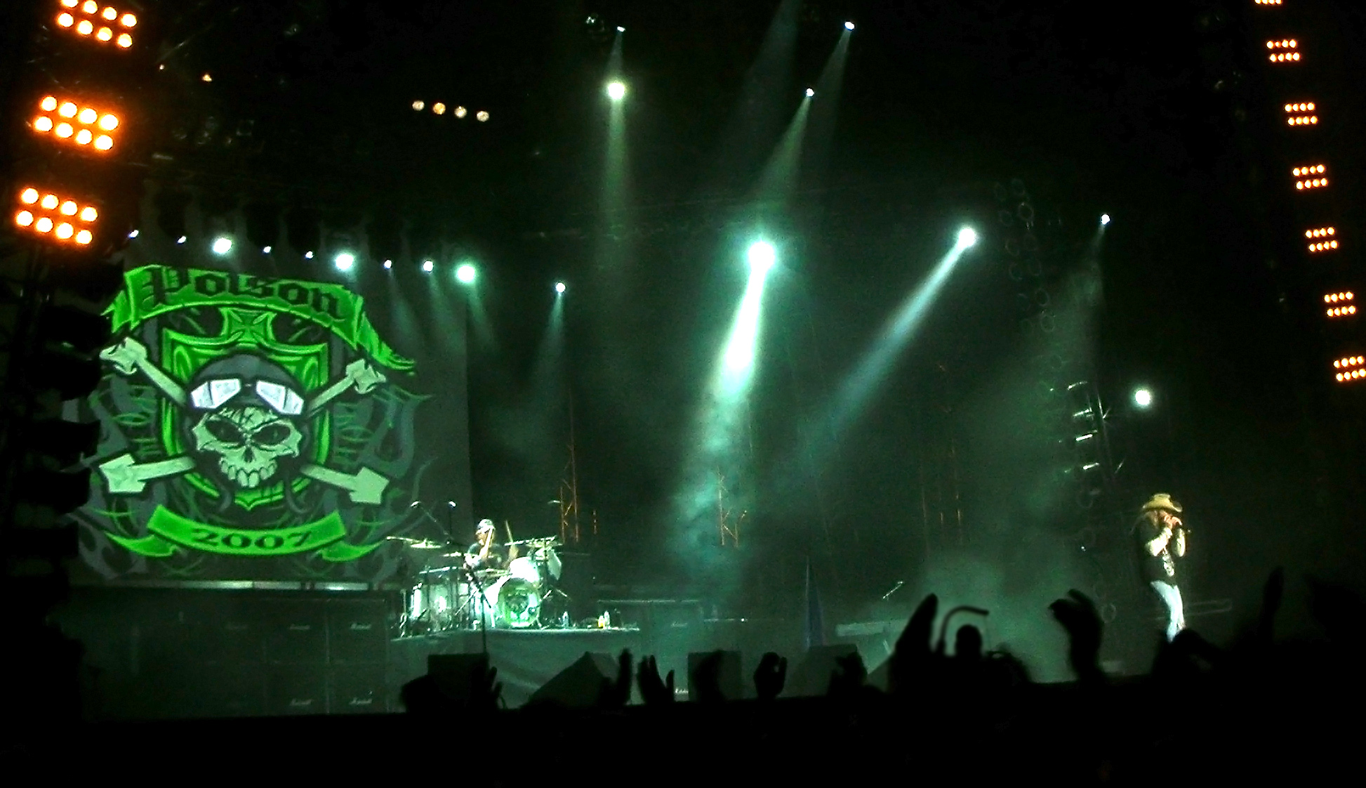 American glam metal band Poison at the Sweden Rock Festival, 2008. (Yes, I know it says "2007" on the backdrop but don't ask me why...)